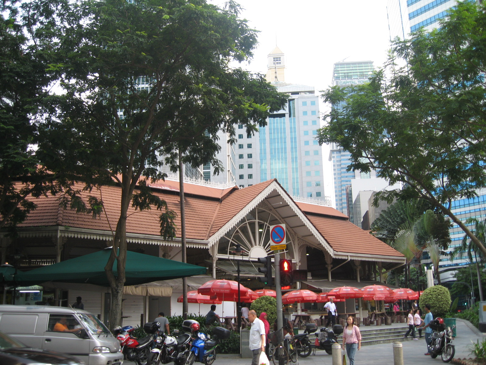 Lau Pa Sat.